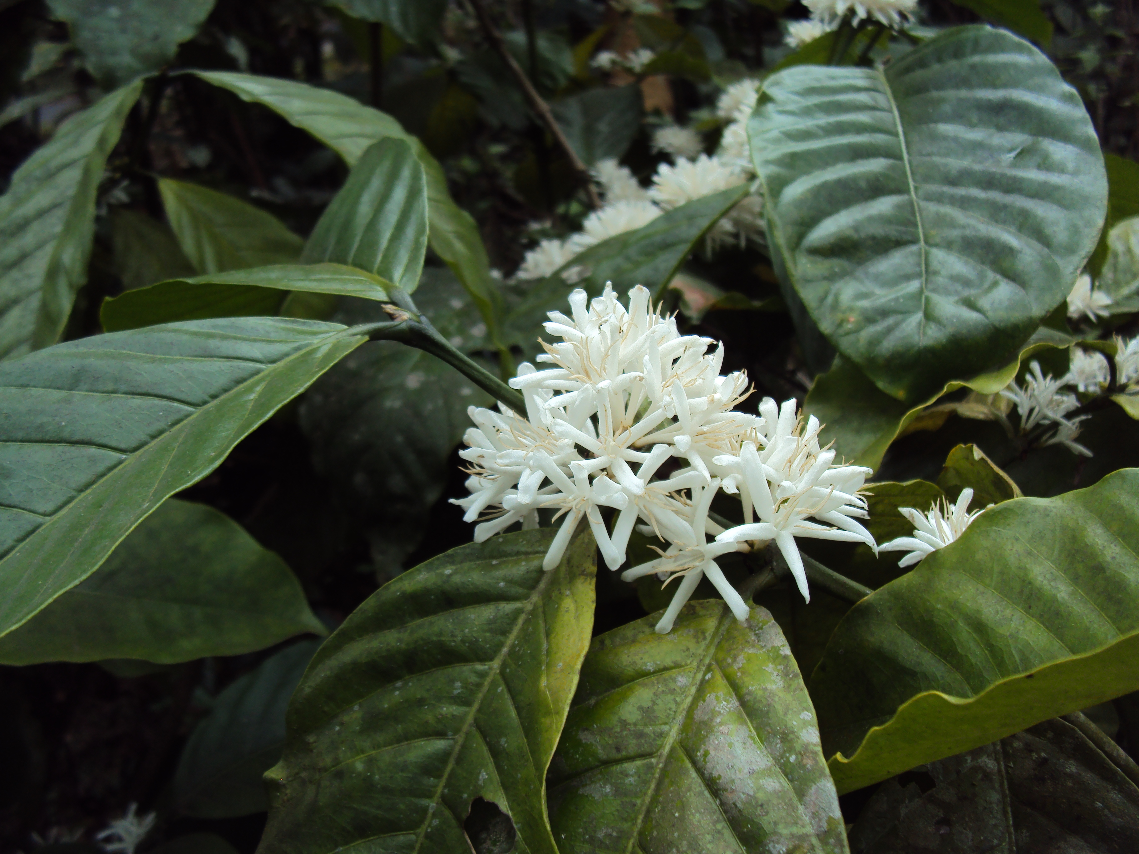 Coffea canephora